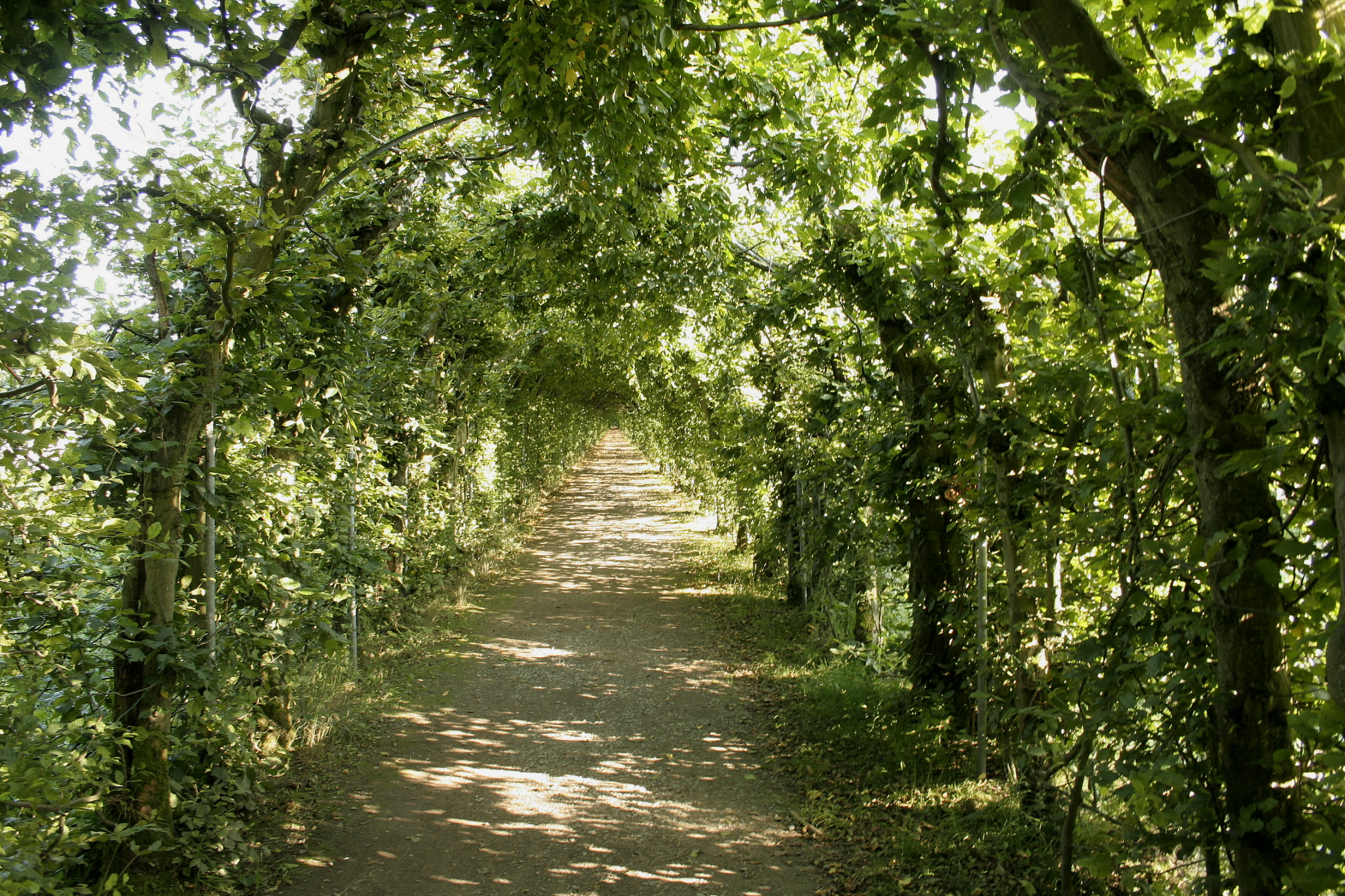 European Hornbeam (Carpinus betulus).